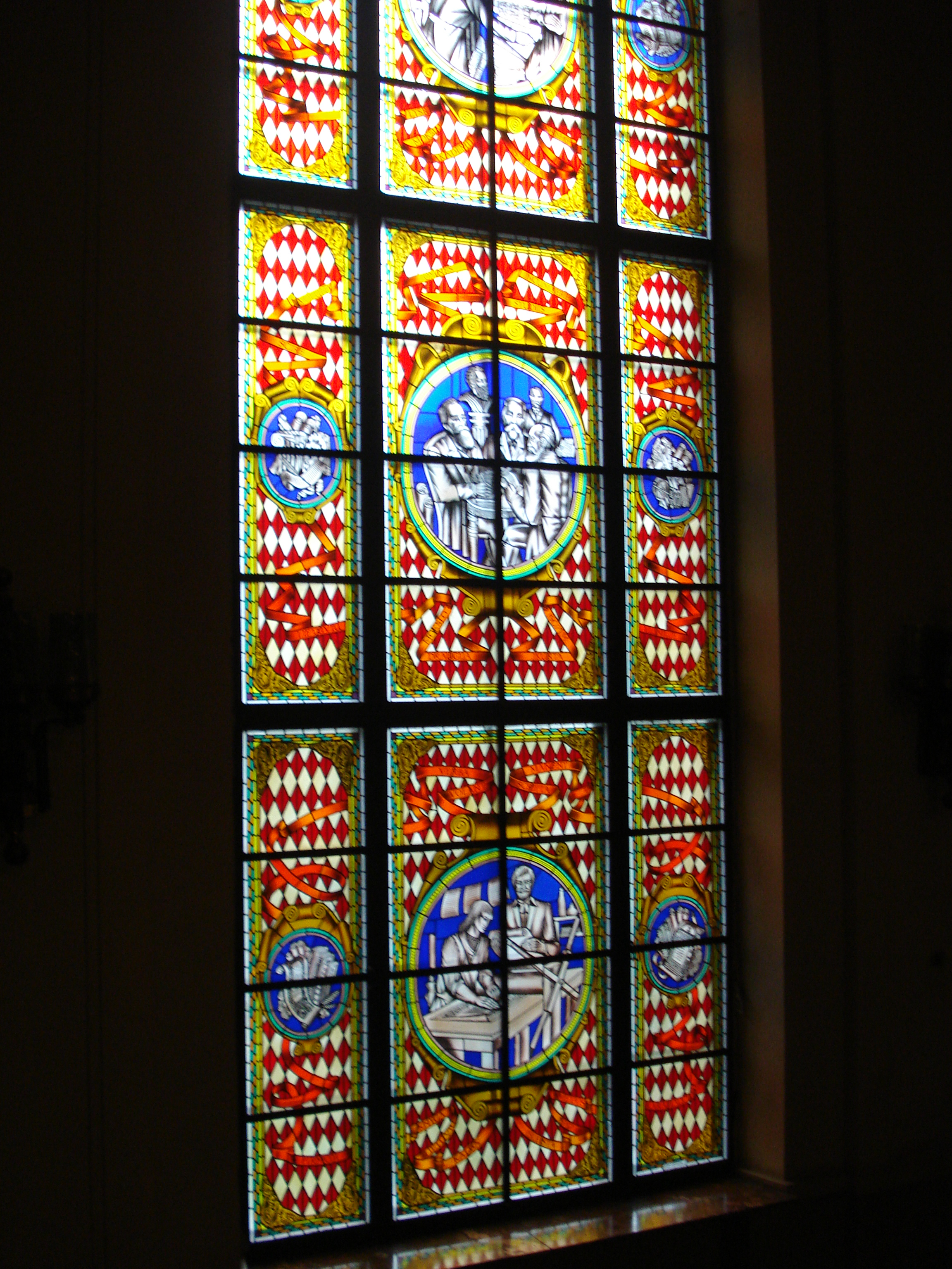 Stained glass window in the Library of the Lithuanian Academy of Sciences by Bronius Bružas (born 1941)